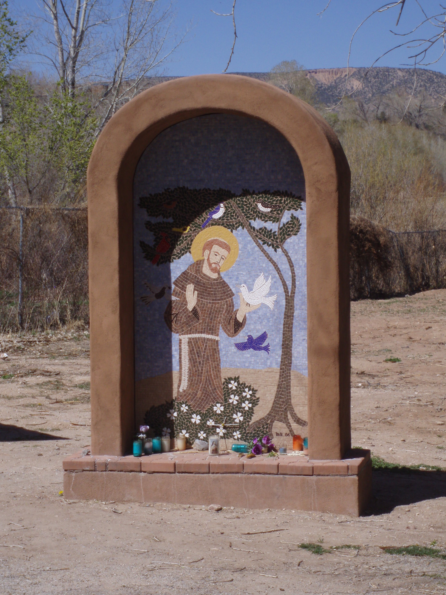 Mosaic near the Sanctuario's outdoor chapel. At the Santuario de Chimayó in New Mexico.